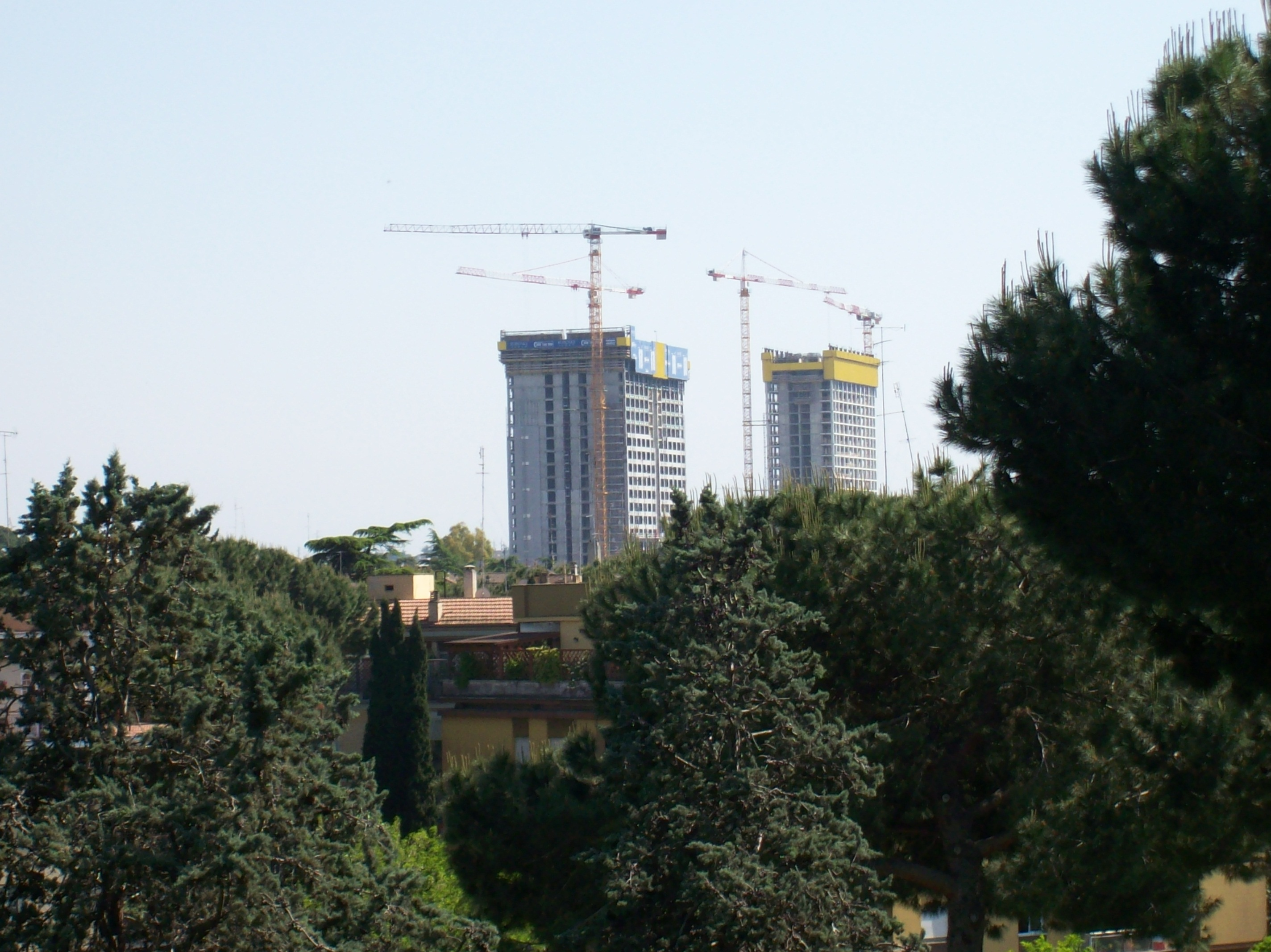 The Eurosky Tower in Rome under construction (22 floors in May 2011); in the background the Europarco Tower